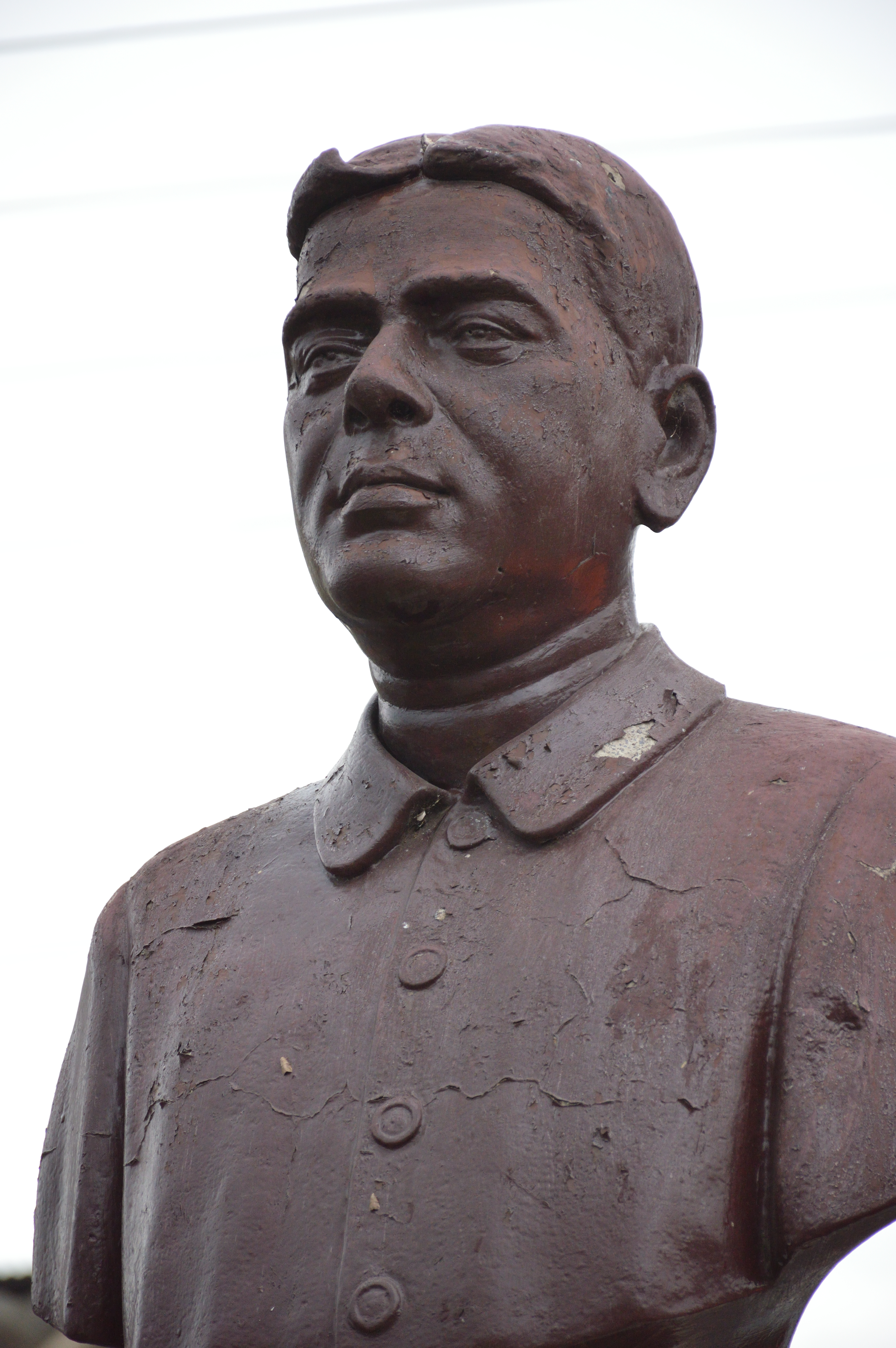 Photographed at Contai, East Midnapore.